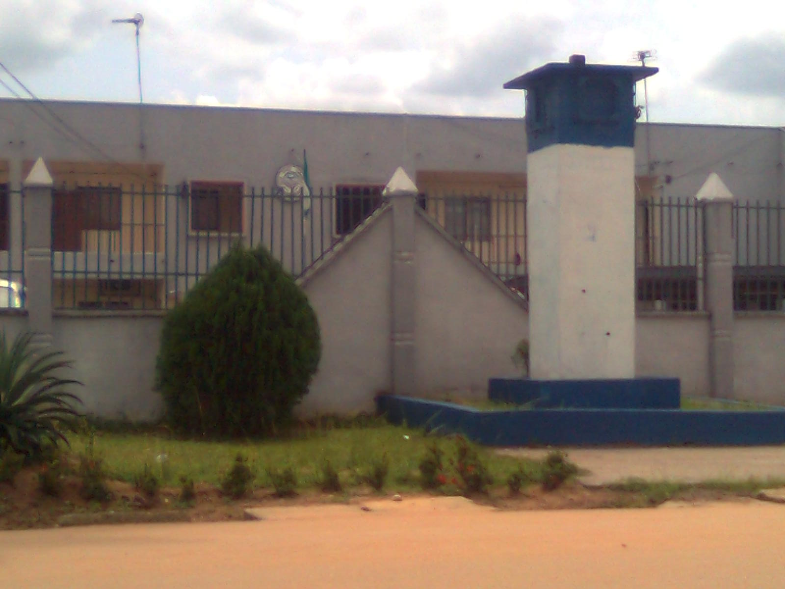 Administrative bock DELSU